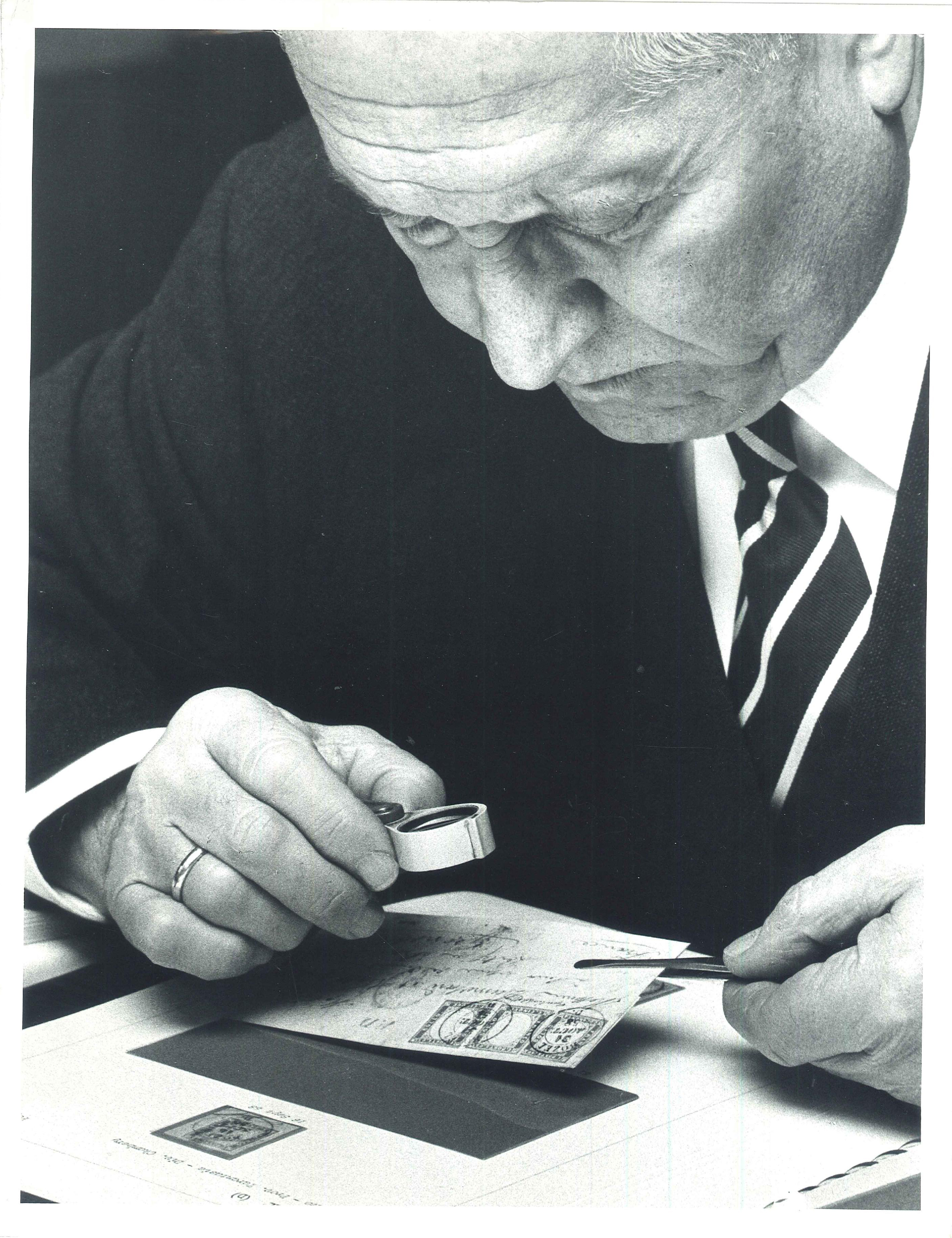 Giulio Bolaffi